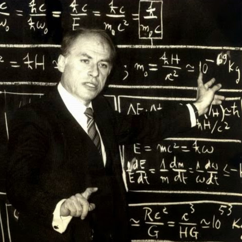 Ioan Iovitz Popescu giving a lecture on etherons at the Faculty of Physics, University of Bucharest, in 1982